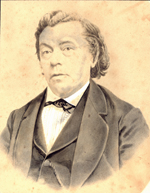 Photograph of Volkert Simon Maarten van der Willigen (1822 - 1878), Dutch scientist, professor and head of the physical cabinet at Teylers Museum